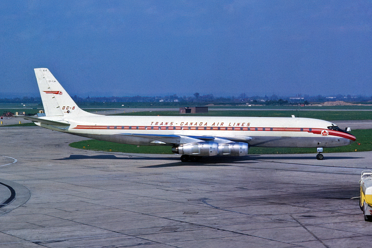 Trans Canada Air Lines Douglas DC-8-54CF (CF-TJN) at London Heathrow Airport. This aircraft crashed on 29 November 1963, only several months after this photo as taken.